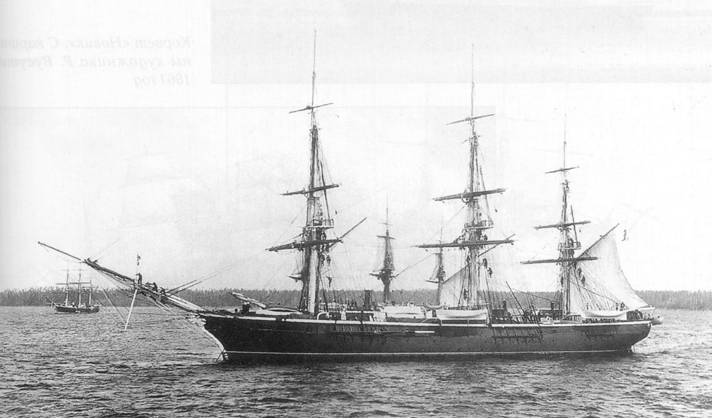 Imperial Russian corvett Bayan.